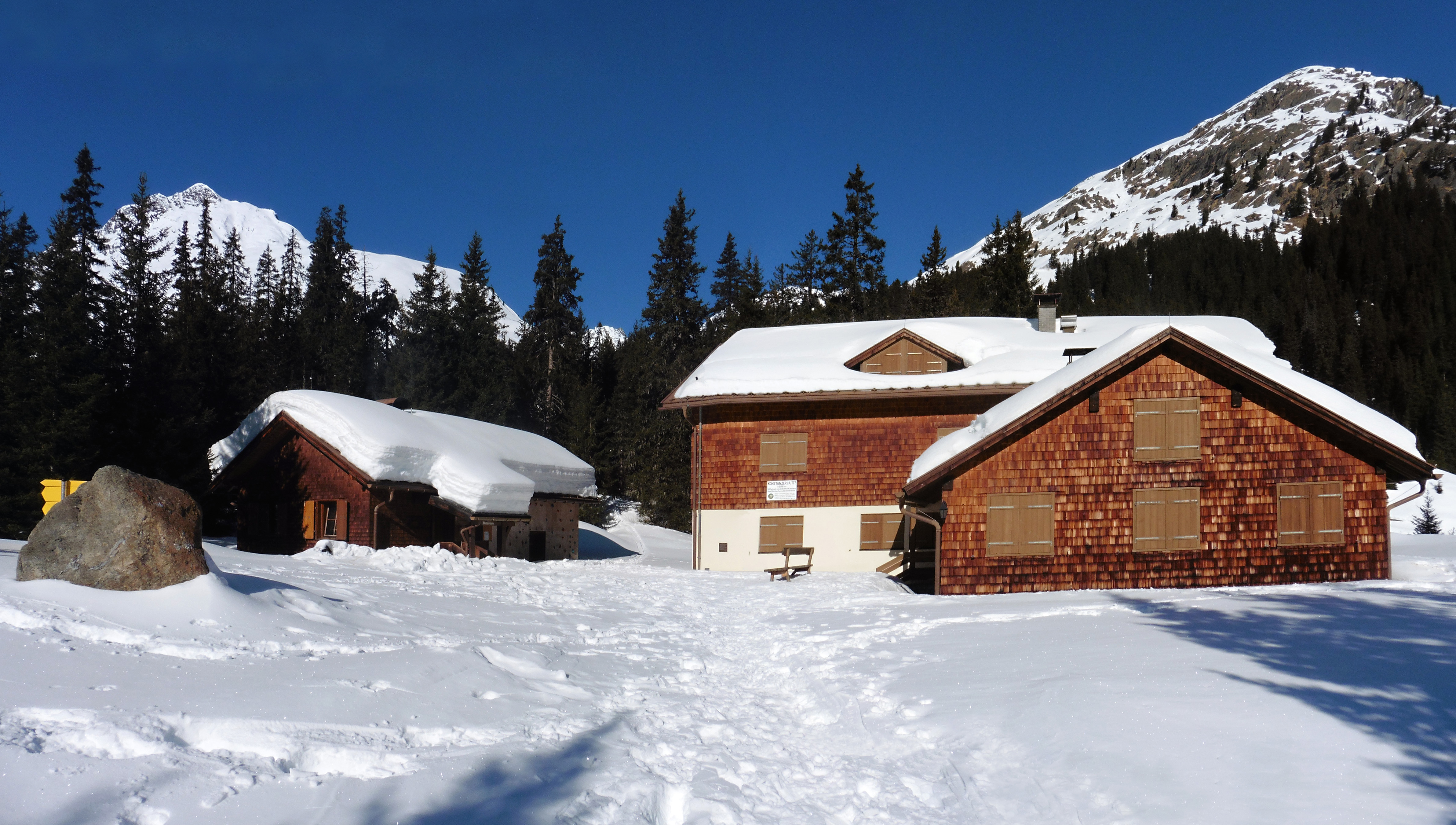 Konstanzer Hütte seen from Southeast in winter. The winter room is on the left hand side.